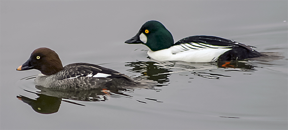 Pair of Common Goldeneyes (Bucephala clangula) Taken at Lake Merritt in Oakland, CA